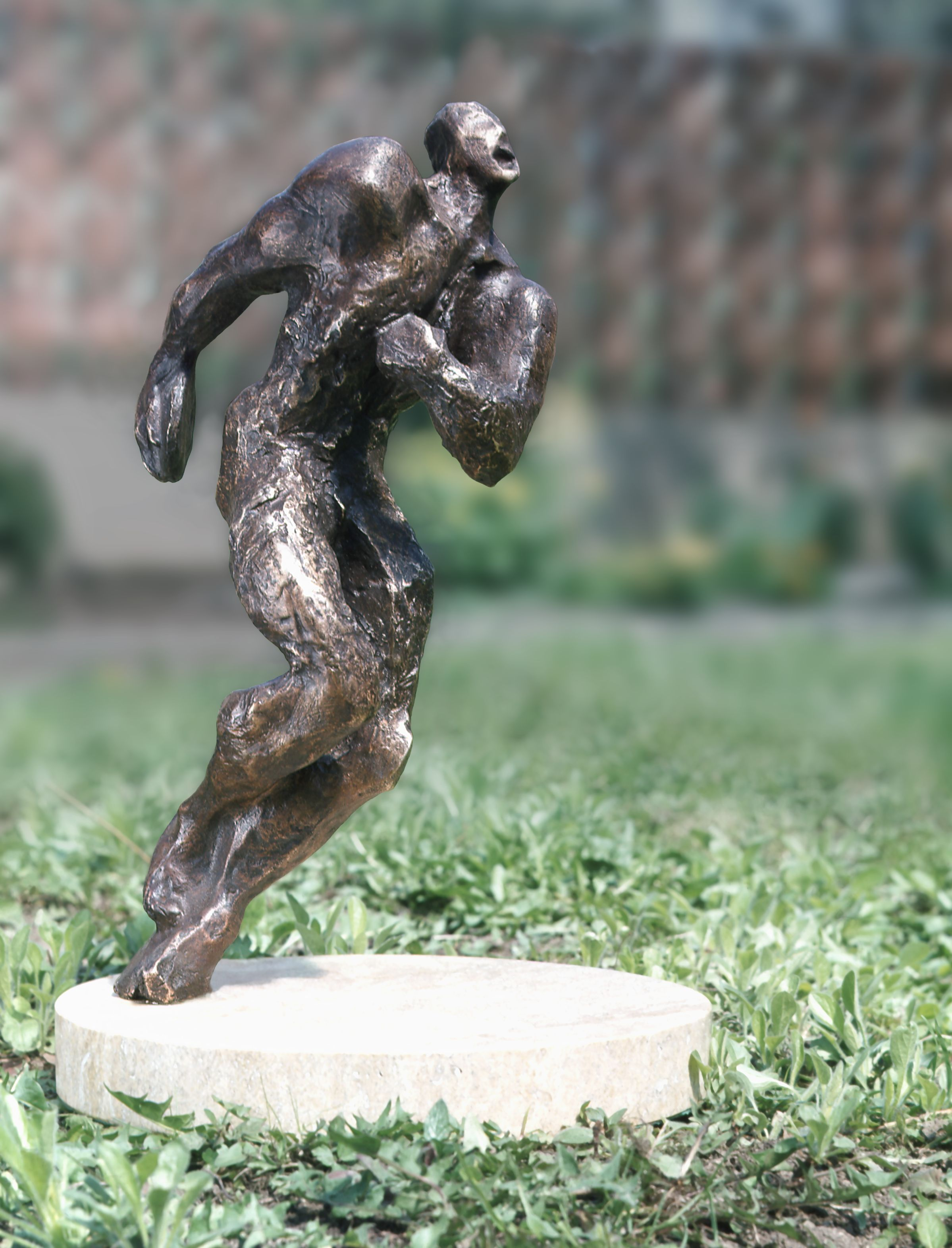 Ladislav Janouch: Discus thrower, bronze, 1976.